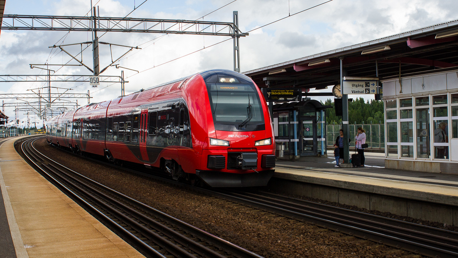 An MTR Express train at Södertälje Syd railway station